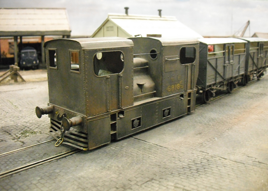 Model of an LNER class Y10 double-ended Sentinel locomotive